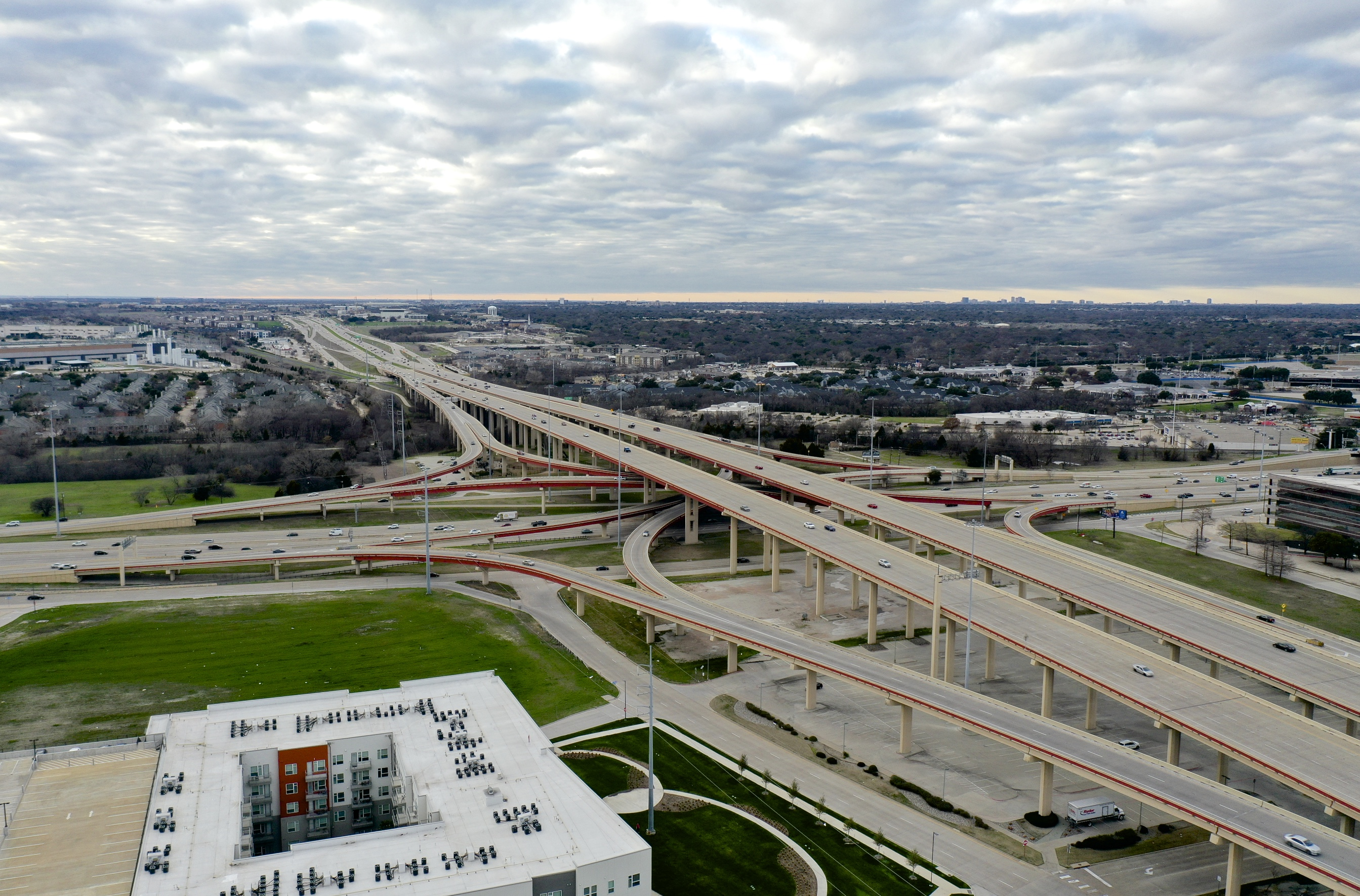 A stack interchange between President George Bush Turnpike (top level) and U.S. Highway 75 (lower level), on the border between Richardson and Plano in Texas, February 2020. Bush Turnpike runs in this photo from west (top) to east (bottom right); U.S. 75 runs from south (left) to north (middle right).